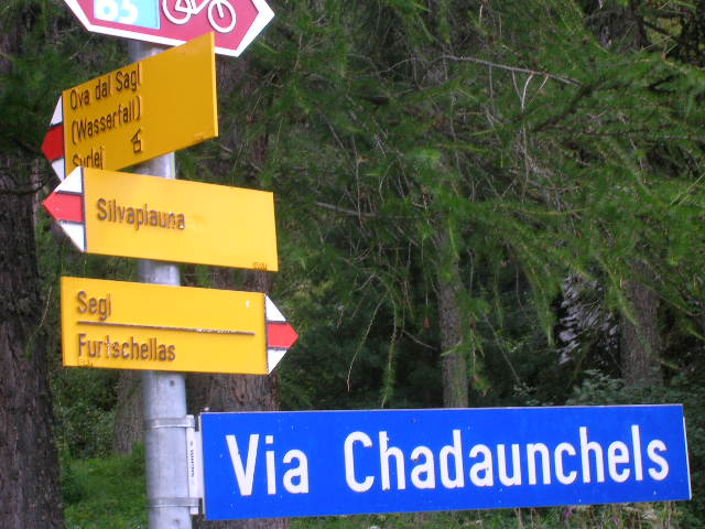 Road Signs in Reto Romanch Language in Silvaplauna GR (Switzerland)